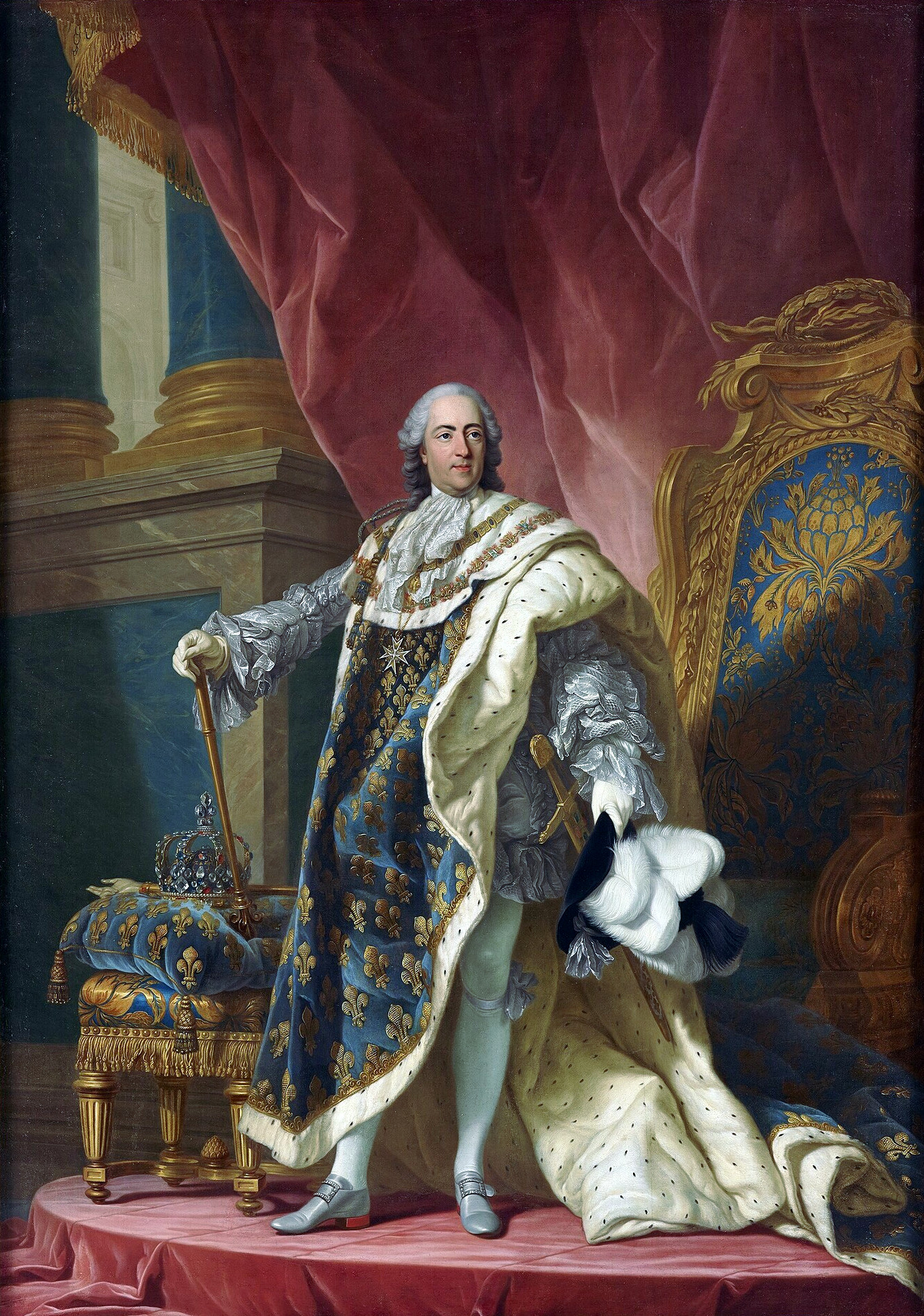 Portrait of Louis XV of France (1710-1774)